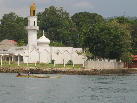 Kaum Purnah Mosque, Isabela City, Basilan, Philippines